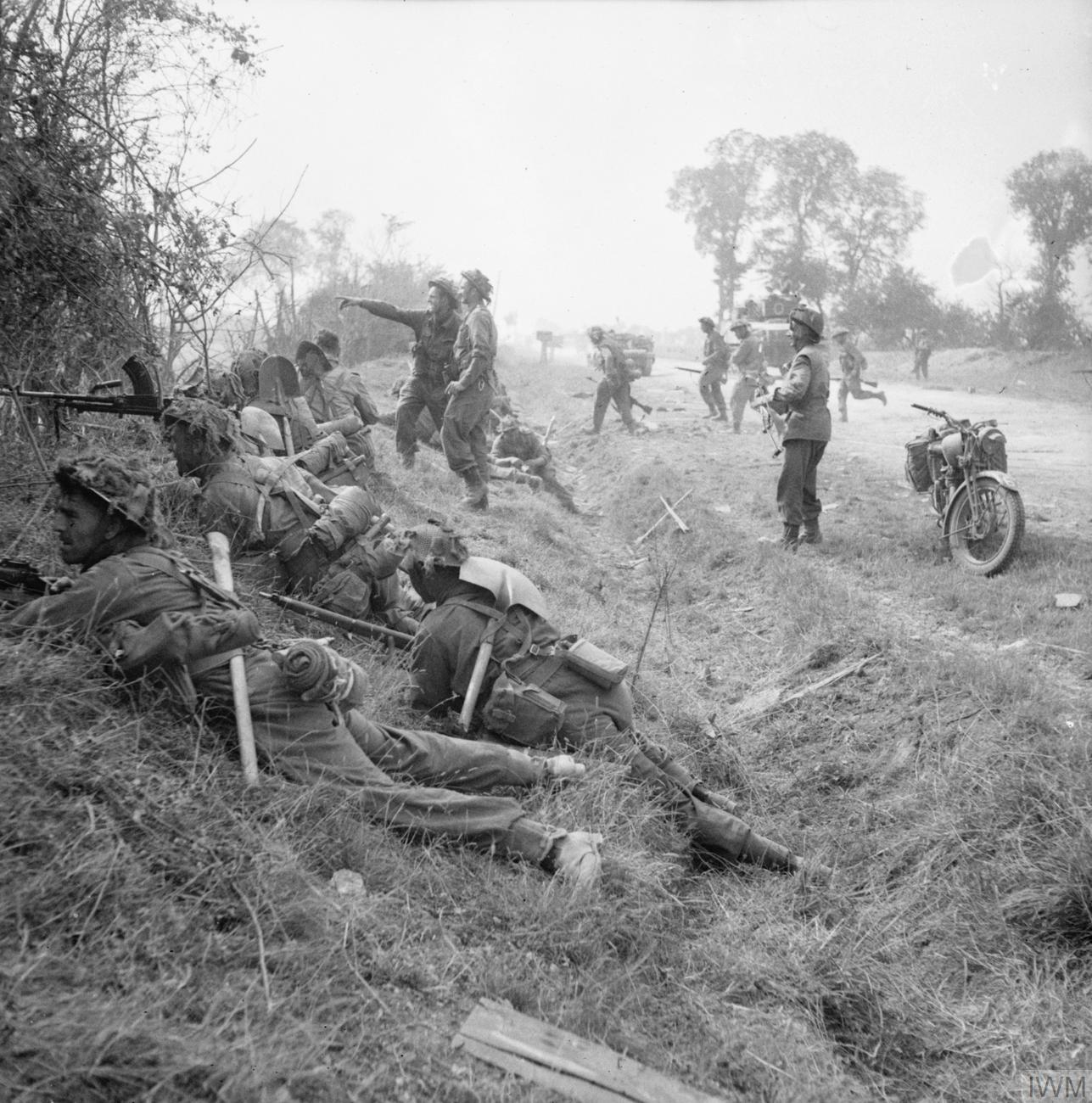 Soldiers of 1st Welsh Guards in action near Cagny during Operation Goodwood